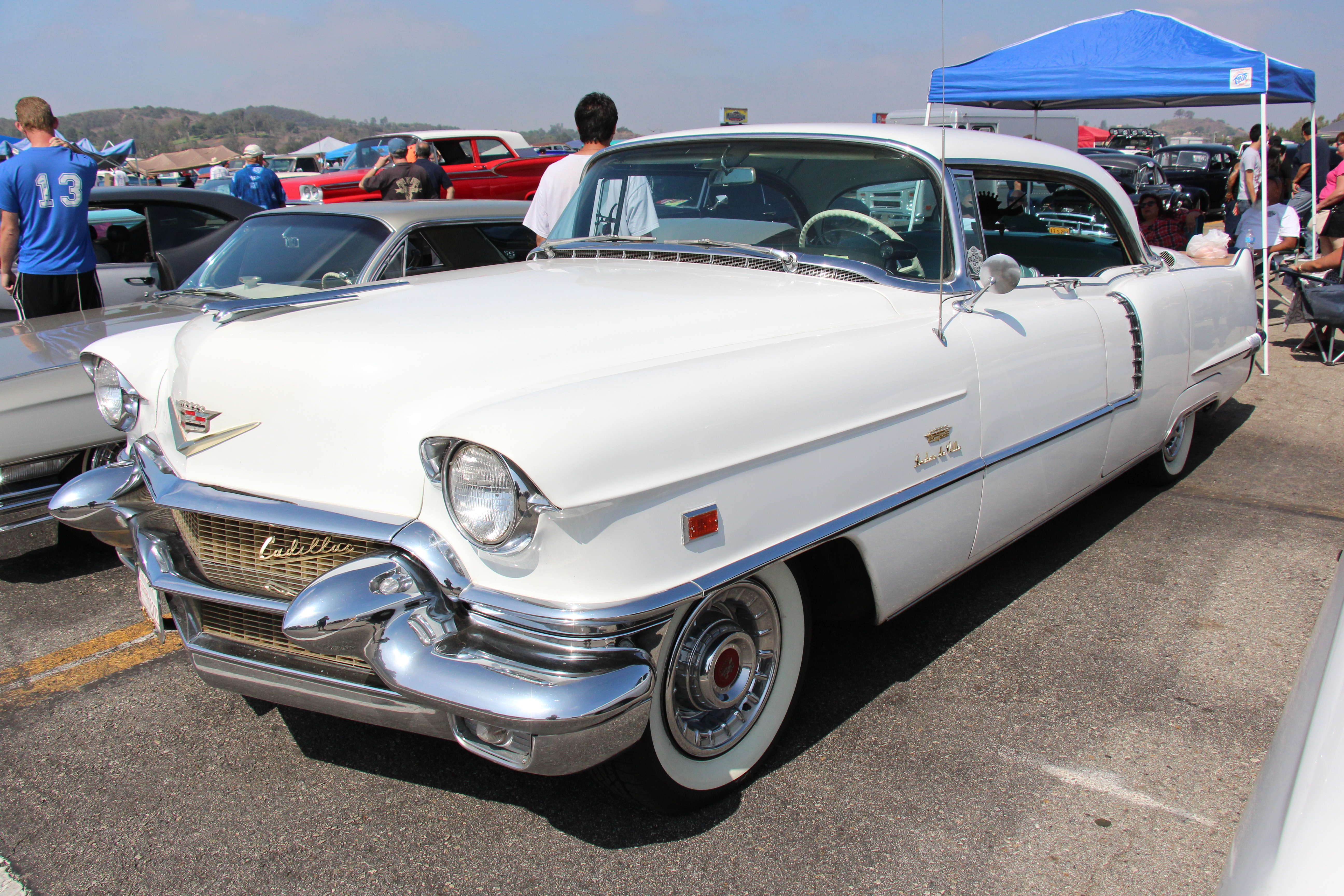 The 1954-56 Cadillac was lower and sleeker with inverted gull wing front bumper, the dual exhaust was incorporated in the rear bumper extensions and they got knobby tail fins. In 1954 the parkers were mounted within the cellular grille. In 1956 there was a new grille, with finer textured insert, and the repositioning of the parking lights in the bumpers, below the wing guards Models available in 1956; Series 60 Special; Luxury 133in wheelbase V8, only 4 door sedan. Series 62; Entry level 129 inch wheelbase V8, 4 door sedan, 4 door sedan de Ville, 2 door coupe, 2 door coupe de Ville, 2 door convertible, 2 door coupe Seville and 2 door convertible Eldorado Series 75; Luxury 150 inch wheelbase V8, sedan and limousine. Engine; New for 1956, all models got the new 365 cu in V8.